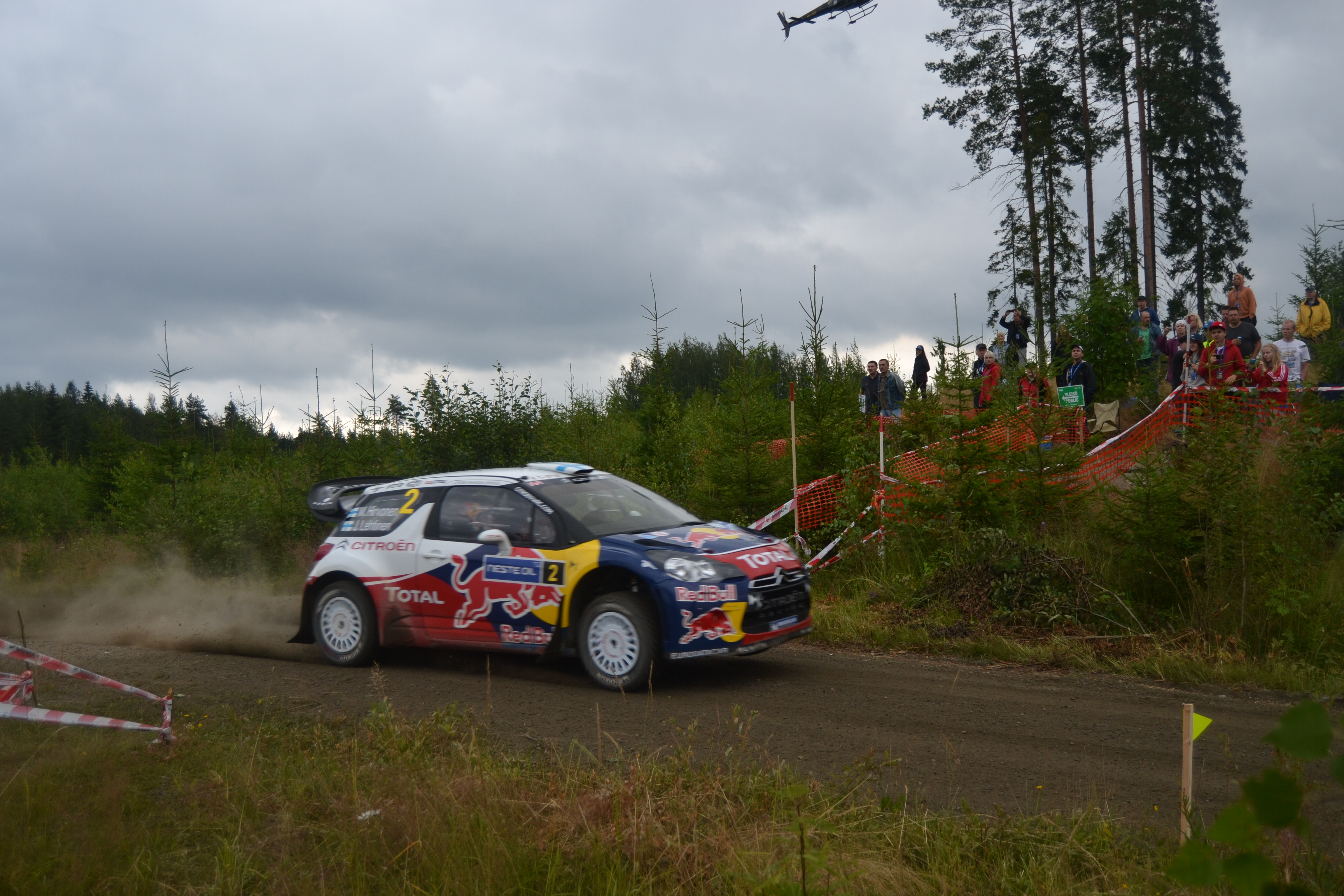 Mikko Hirvonen at 2nd Surkee stage at 2012 Rally Finland Unknown